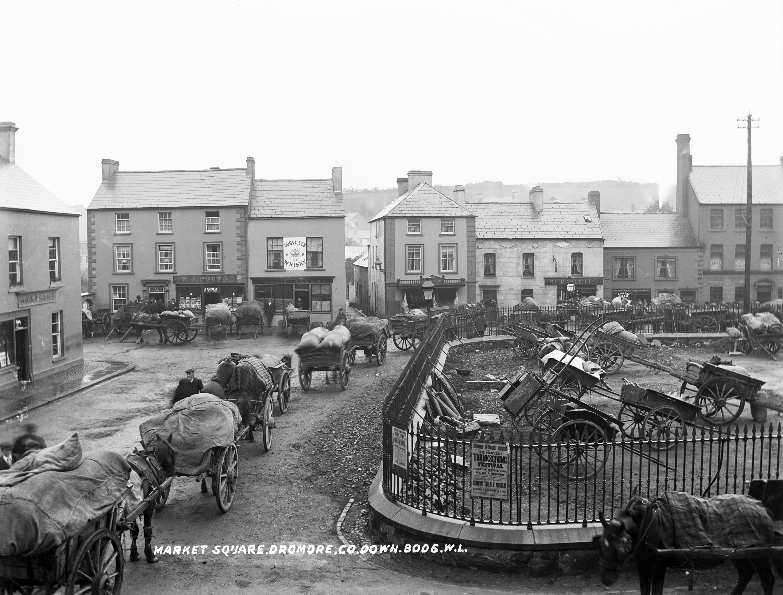 Very patiently queueing horses at the Market Square in Dromore, Co. Down. Do we reckon those sacks and bundles are grain? (In which case, it must have been torture for the horses - so near and yet so far!) Lovely clear shops in this one; a fantastic sign trumpeting the selling of Farola (hands up who remembers that gloop?) in the establishment of R.J. Poots (don't think we've had a Poots before); and an excellent poster that gives us a very accurate date - thank you, Rev. Wedgwood for advertising your "Service Chiefly Musical" and thank you, Robert French for capturing it... Photographer: Almost certainly Robert French of Lawrence Photographic Studios, Dublin Date: Circa Sunday, 9 October 1904 NLI Ref.: L_ROY_08006